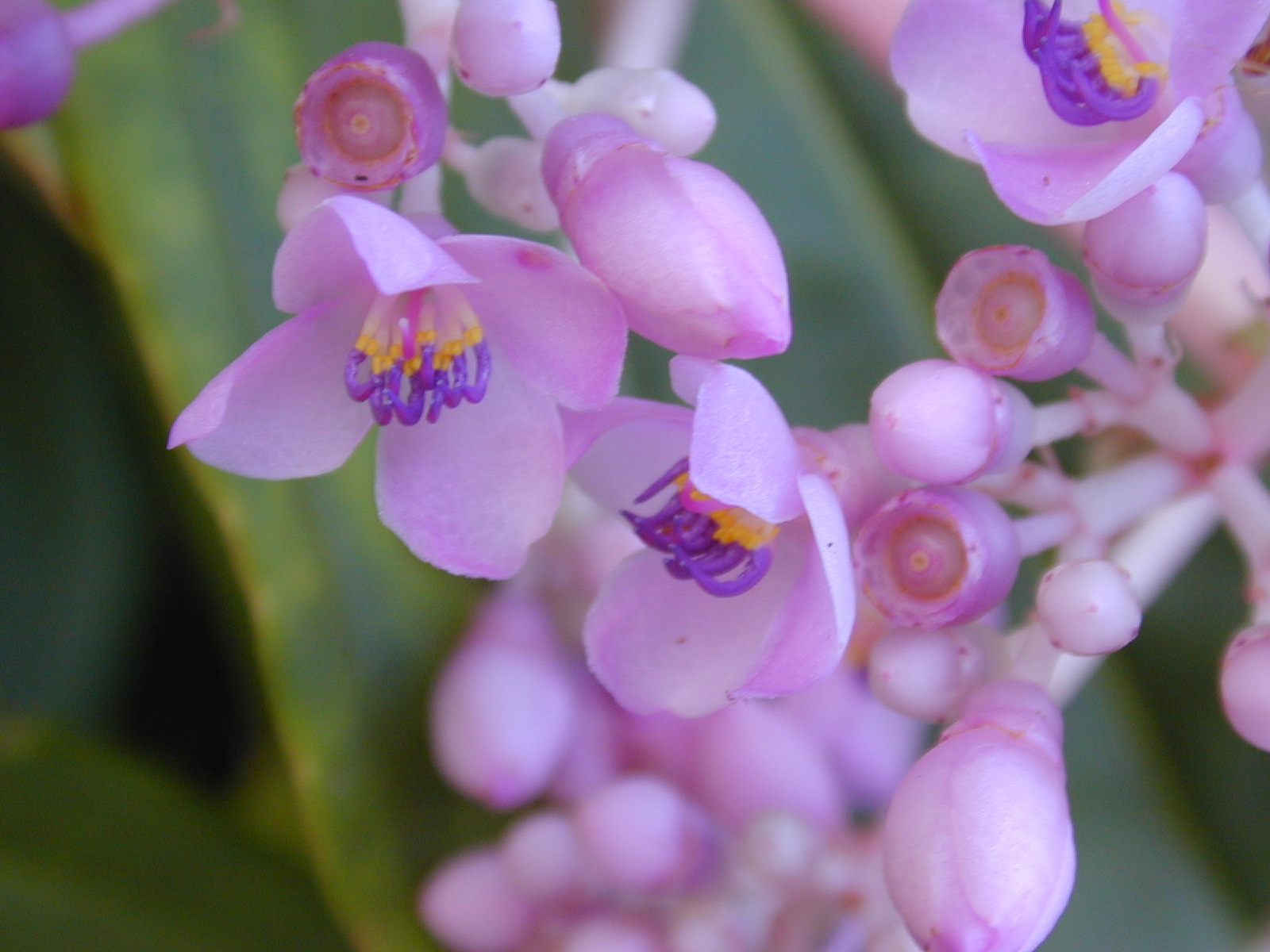 Medinilla cumingii (flowers). Location: Maui, Nahiku